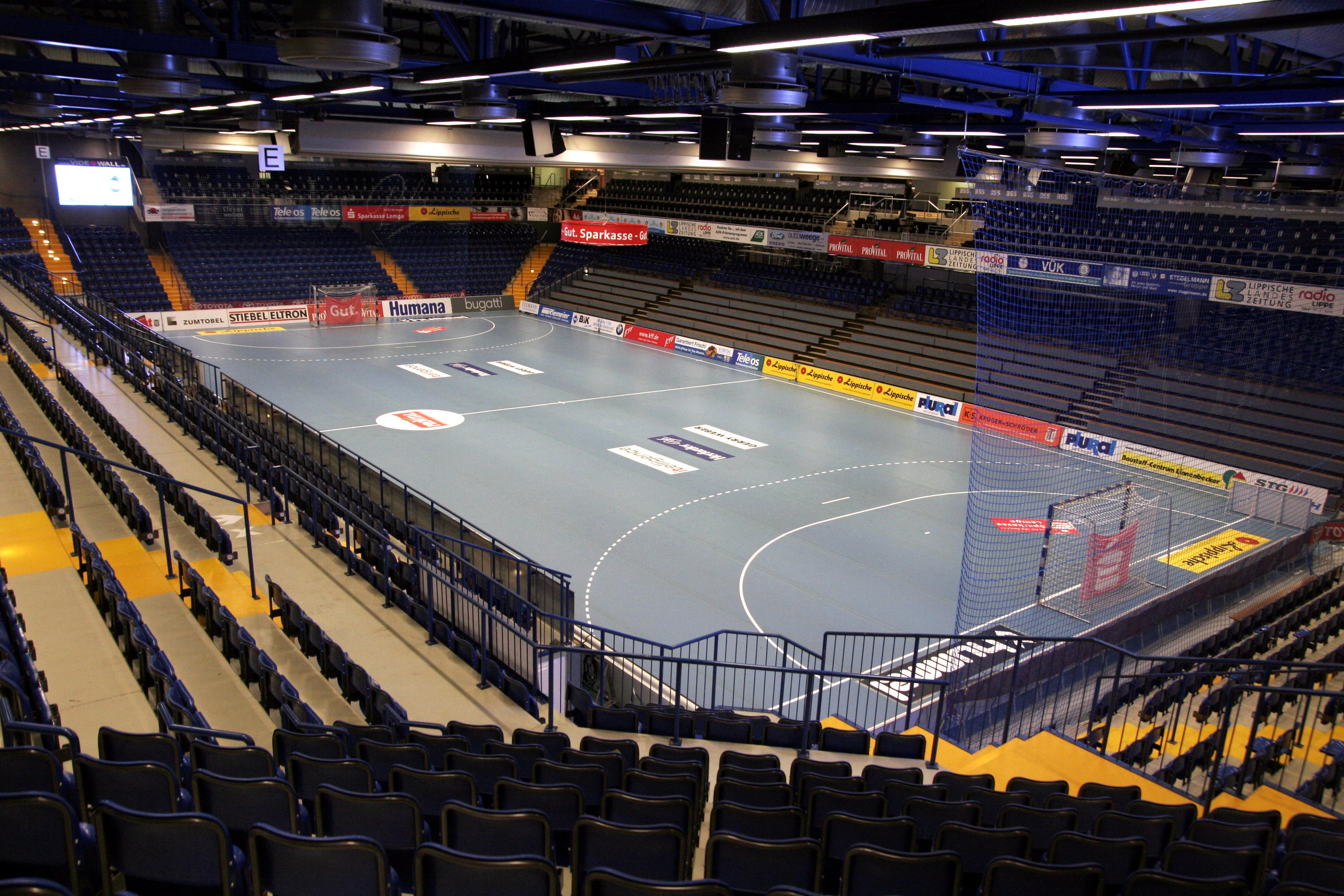 The Lipperlandhalle (sports arena) in Lemgo (Germany) prior a handball match